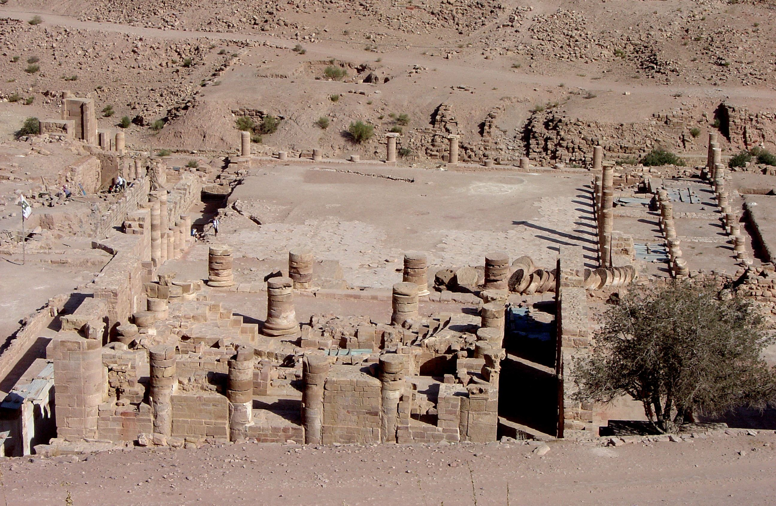 This view shows the Great Temple from above and behind the structure; north is towards the top of the photo. In the foreground are the columns and remaining walls of the upper terrace, below which is the large open square of the lower terrace. To its right, one sees the re-erected columns of the east triple colonnade.